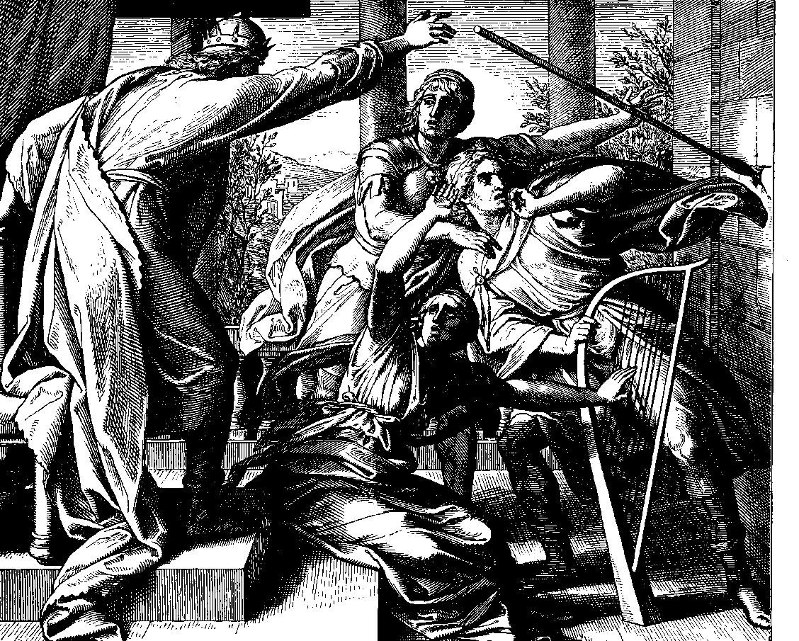 Woodcut for "Die Bibel in Bildern", 1860.